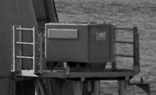 AN/SLQ-32 antenna. Original caption:A close-up view of the SPS-40 air search radar, center, and the smaller SPS-10 surface search radar, right, aboard the frigate USS BOWEN (FF-1079).